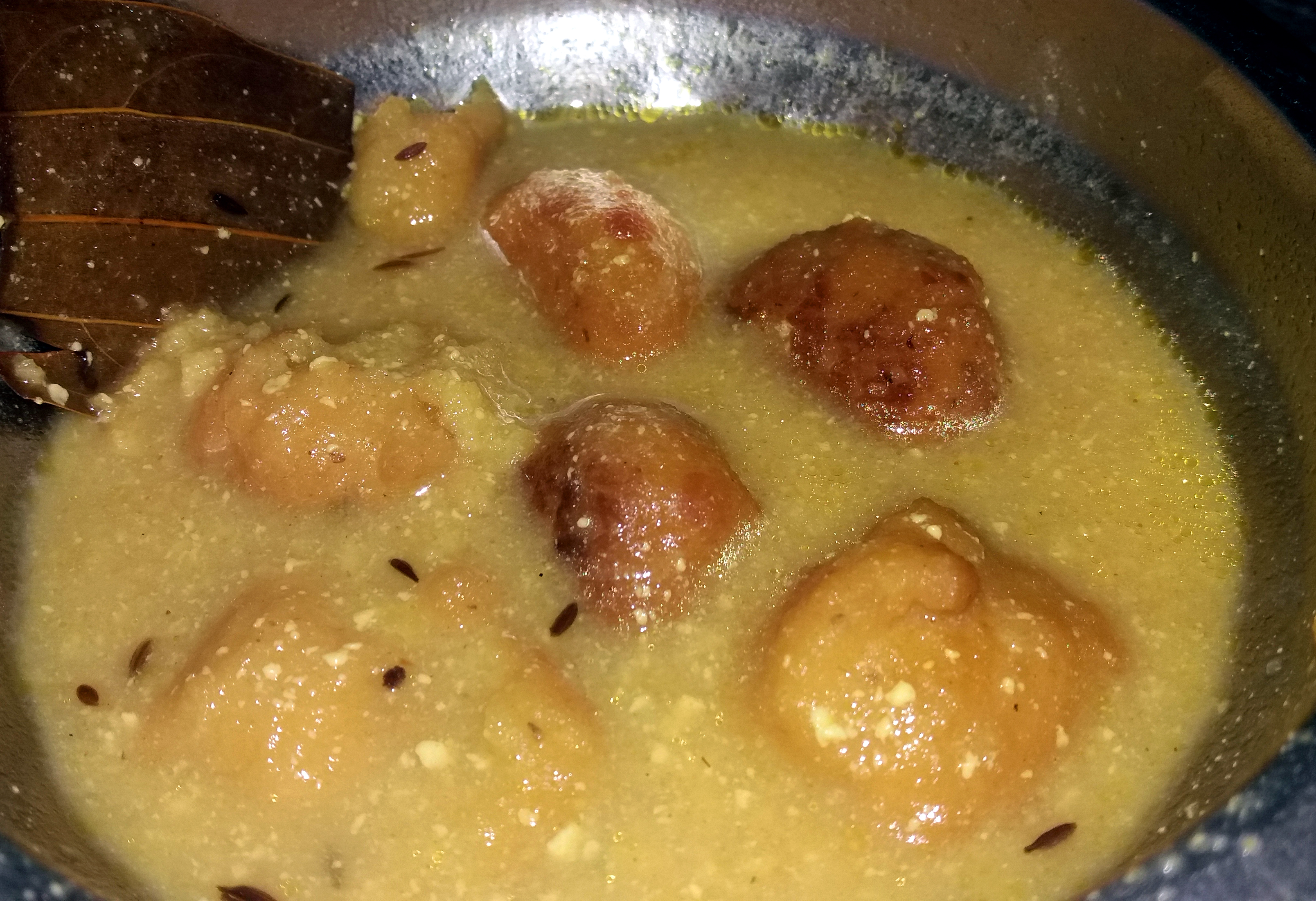 Maithili New Year or Jur Sital or Jude Sheetal, Jhori bari